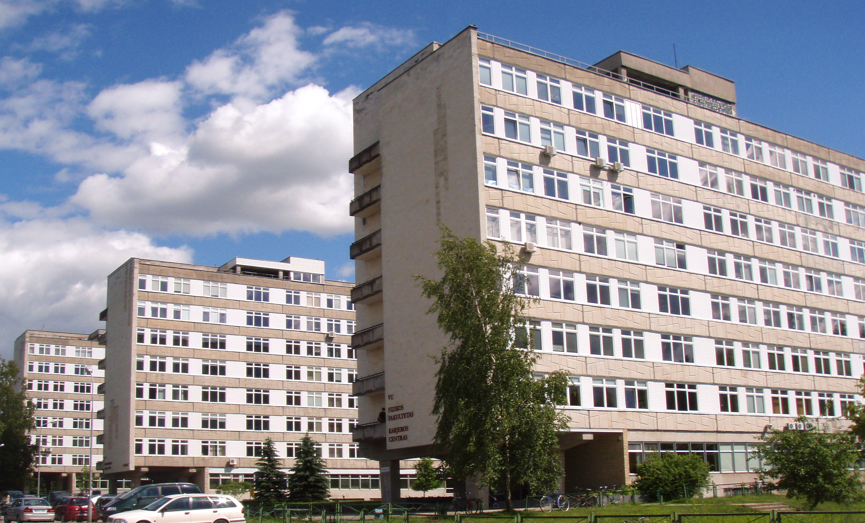 Vilnius university building: faculties of physics, economics, communication and law, informational technologies application center and Institute of Material Science and Applied Research